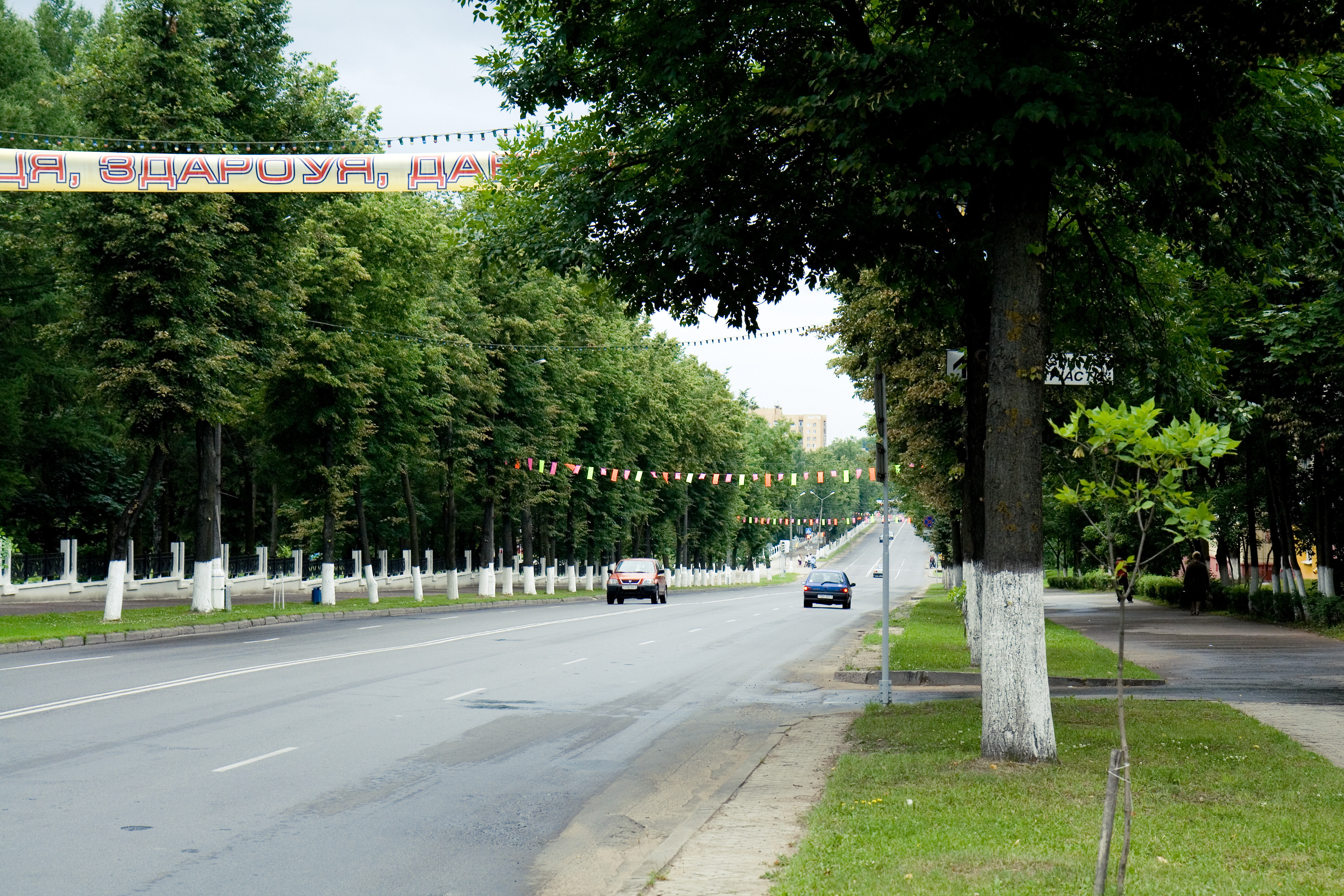 Vialiki Haściniec str. in Maładziečna (Maladzechna), Belarus.